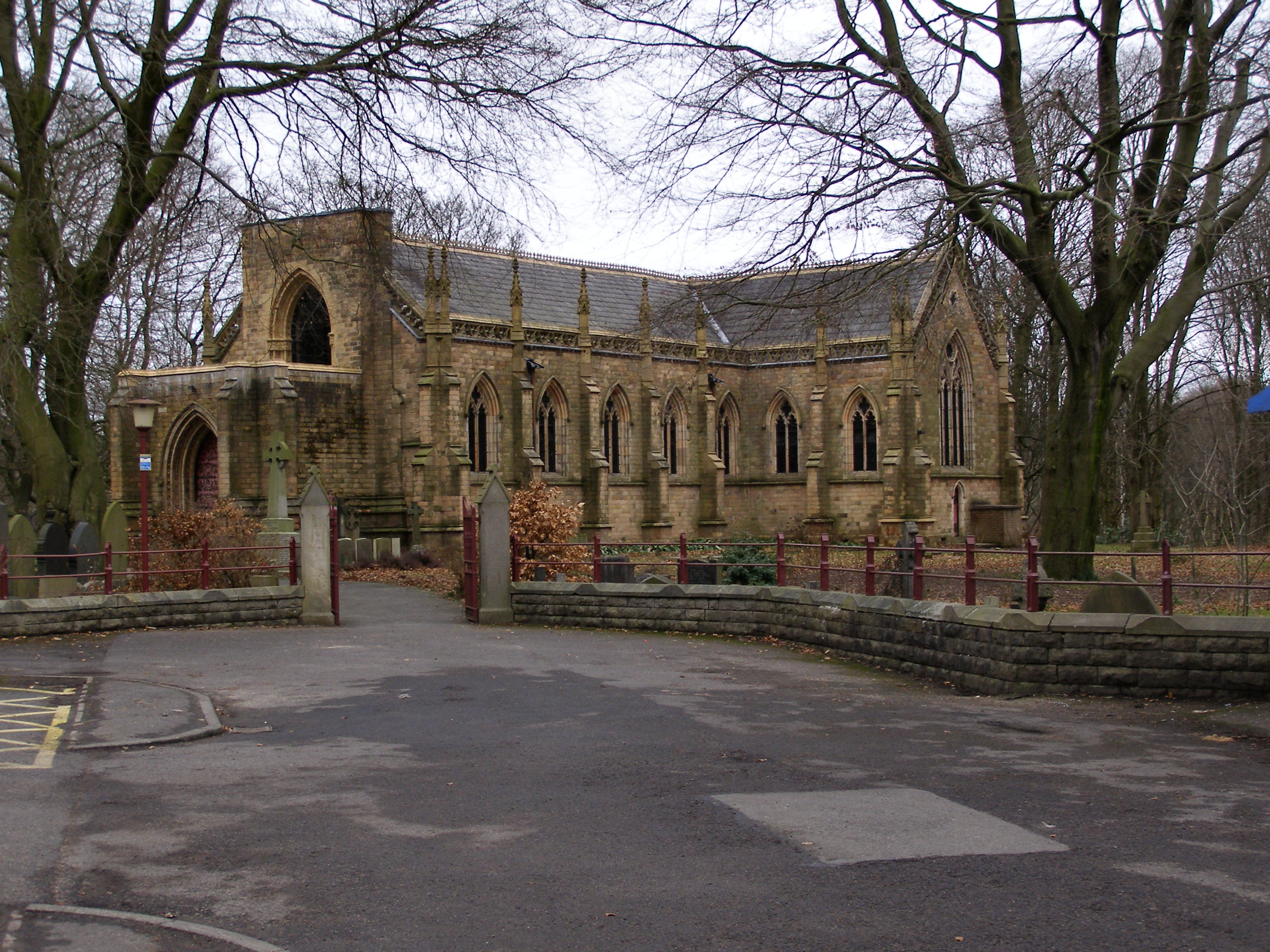 The Church of St Stephen & All Martyrs, Lever Bridge See 361775 for close-up detail.